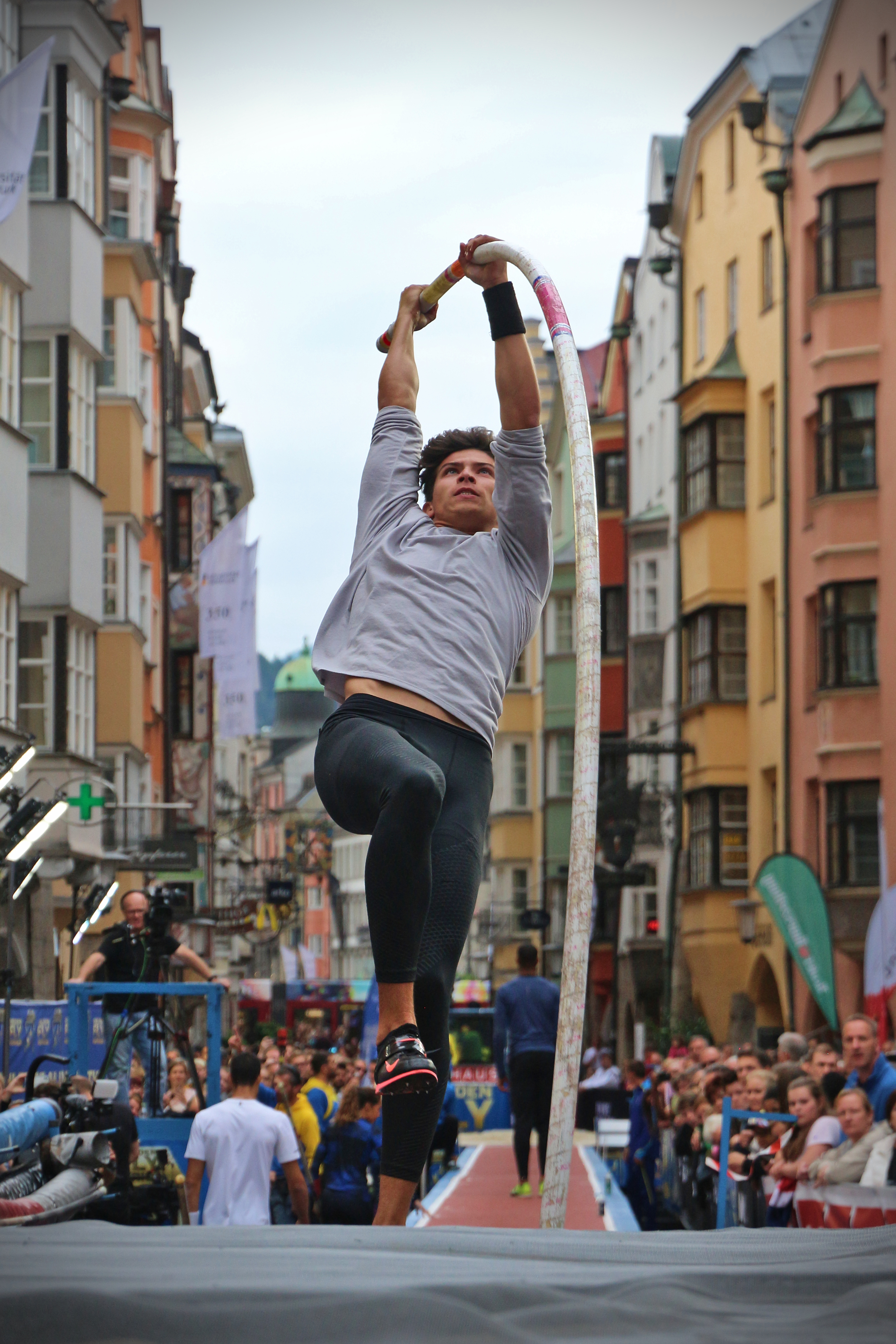 Golden Roof Challenge